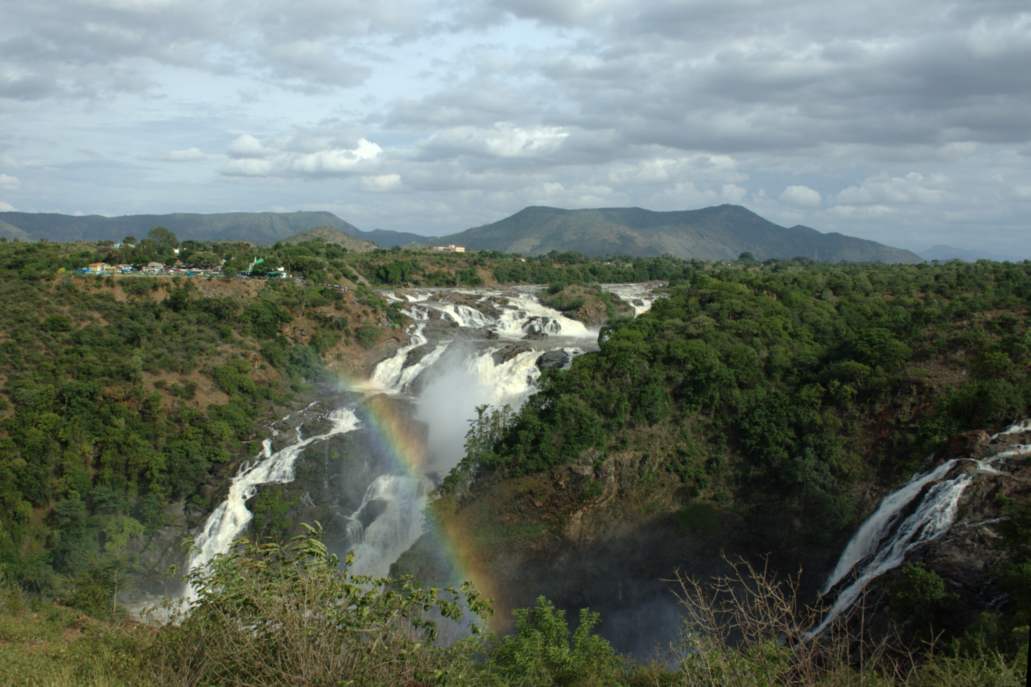 Shivanasamudra Falls, Mandya, near Bangalore